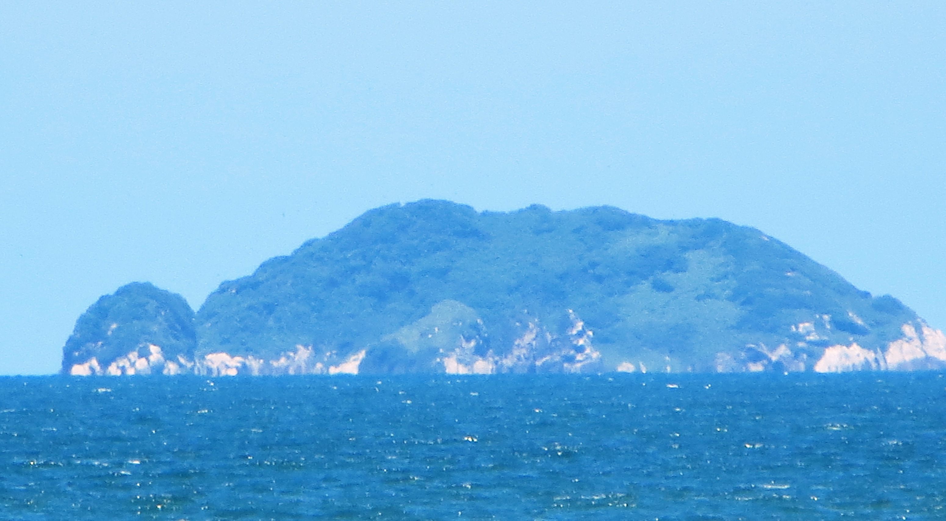 The Island of Corrals as seen at 12 kilometers from Costa Azul Beach, Matinhos, State of Paraná, Brazil.